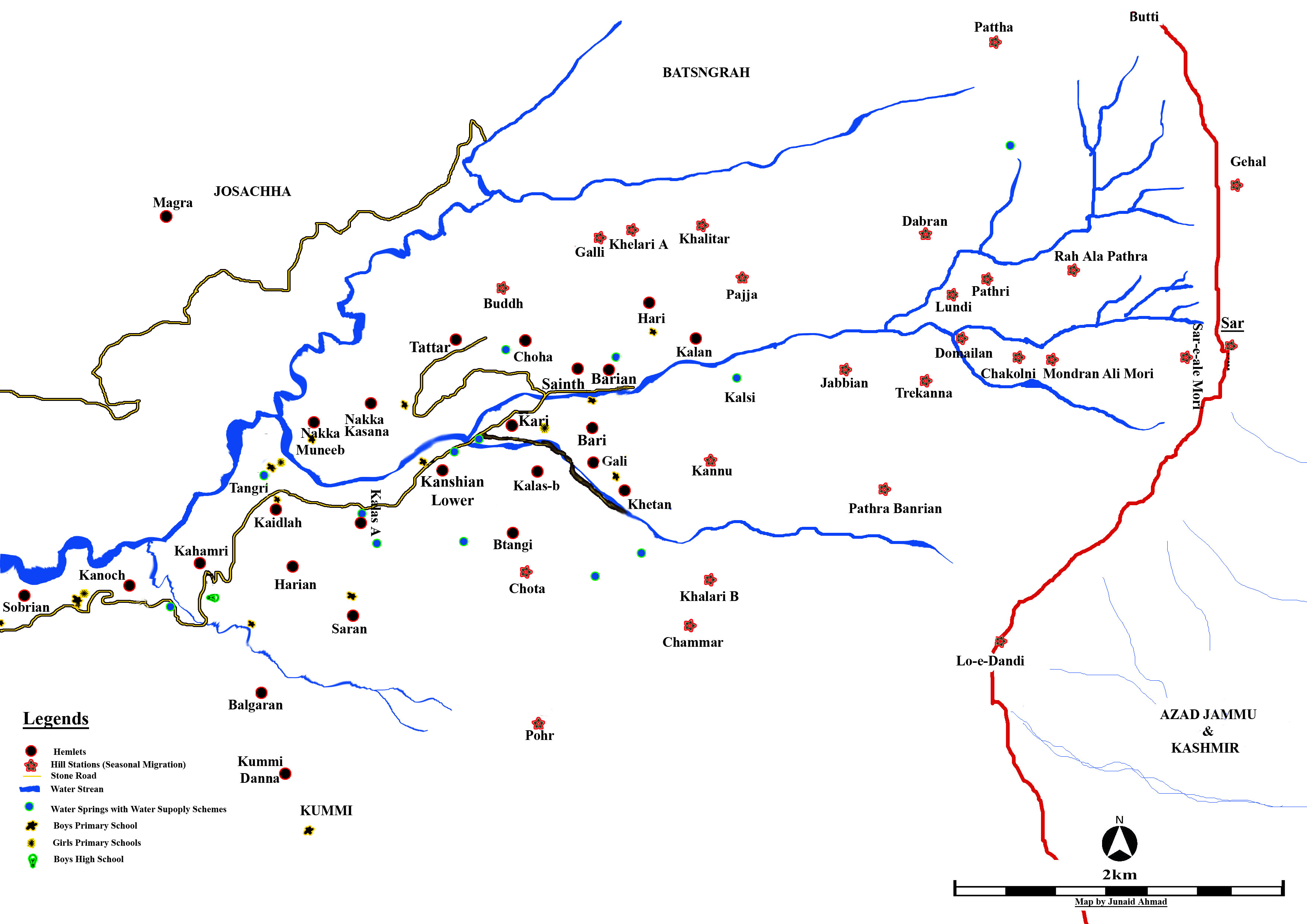 This map has been generated Junaid Ahmad Qazi